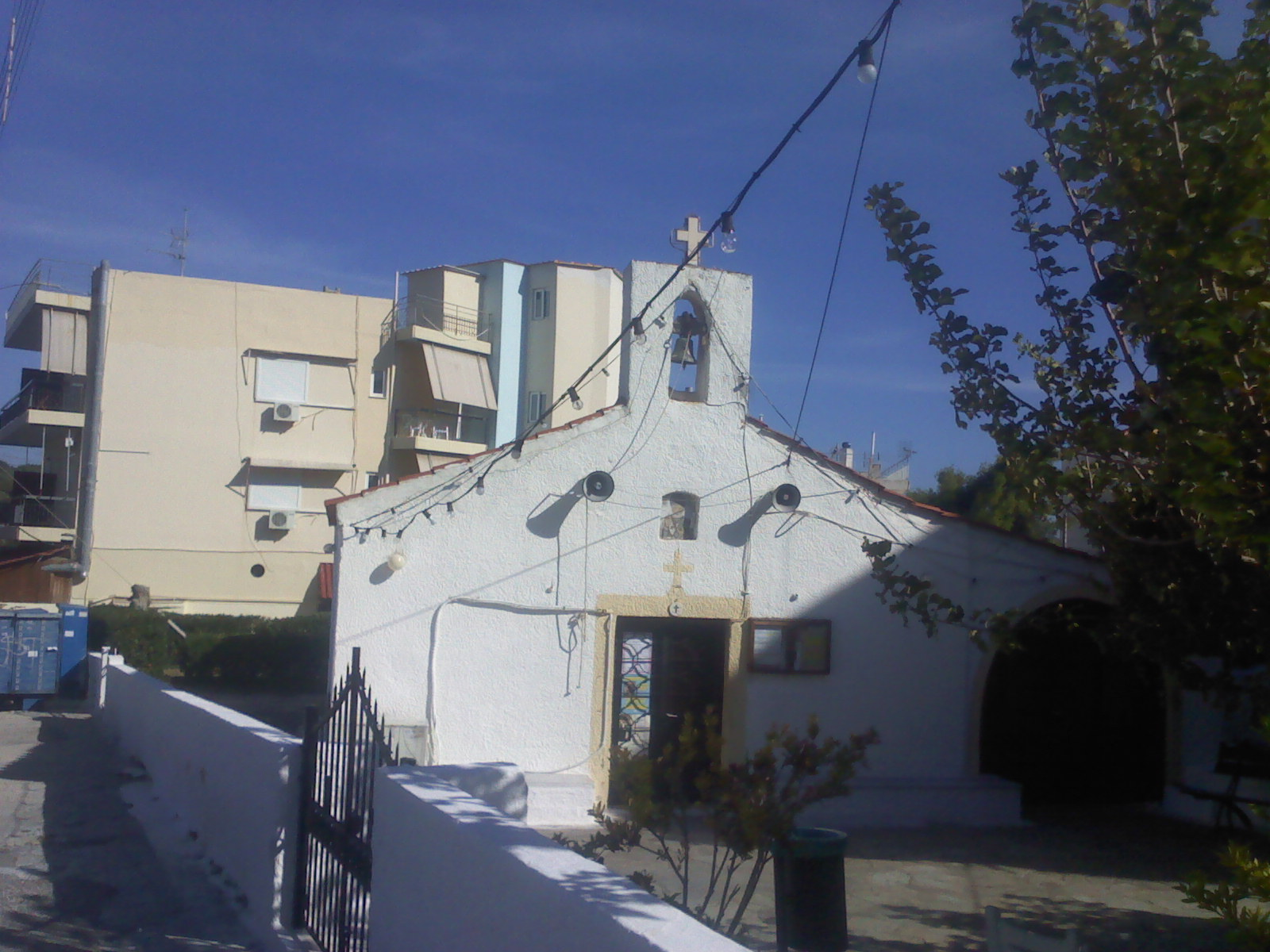 Agios Nikolaos Porto Rafti